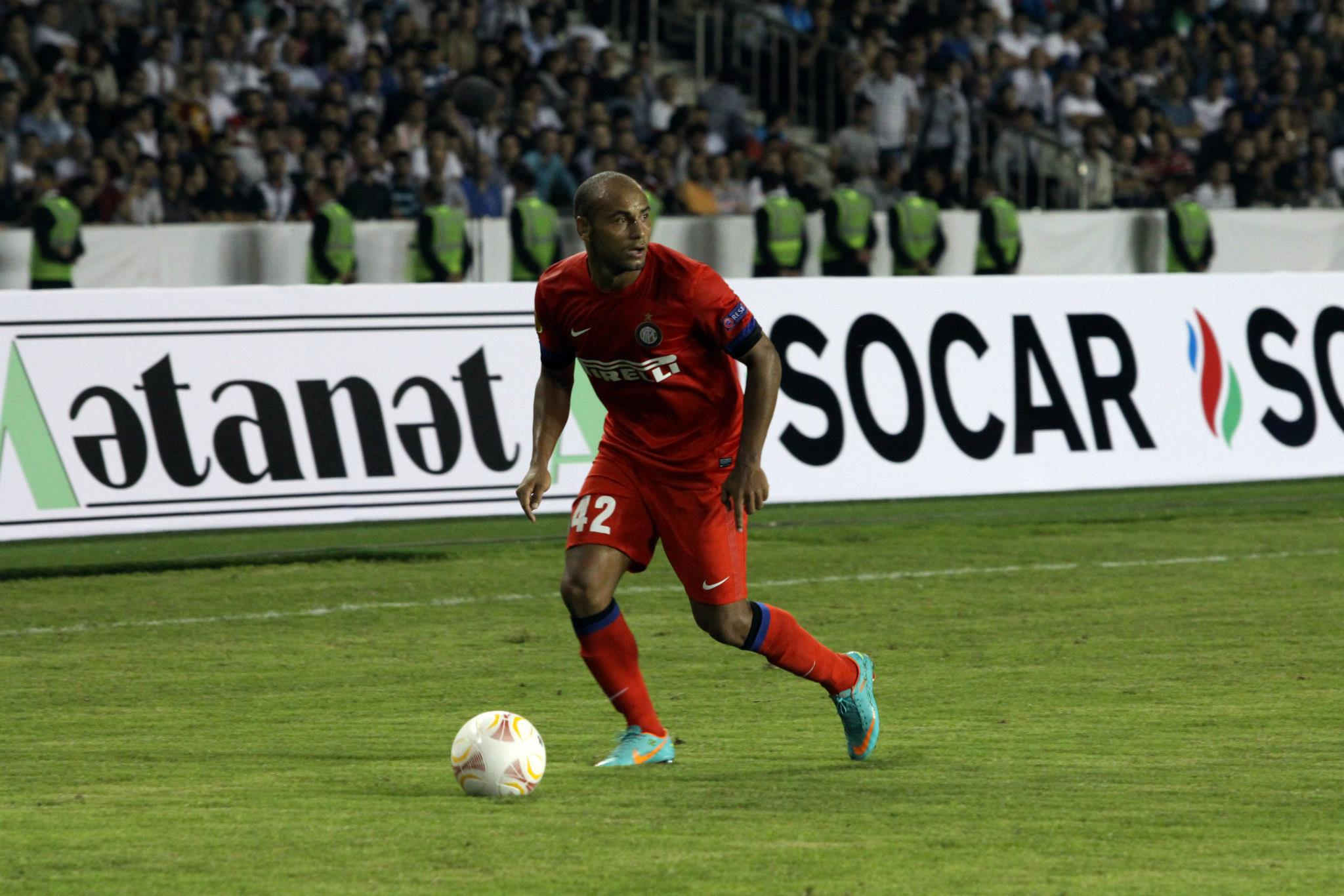 UEFA Europa League 2012-10-04 Neftchi Baku-Inter Milan.